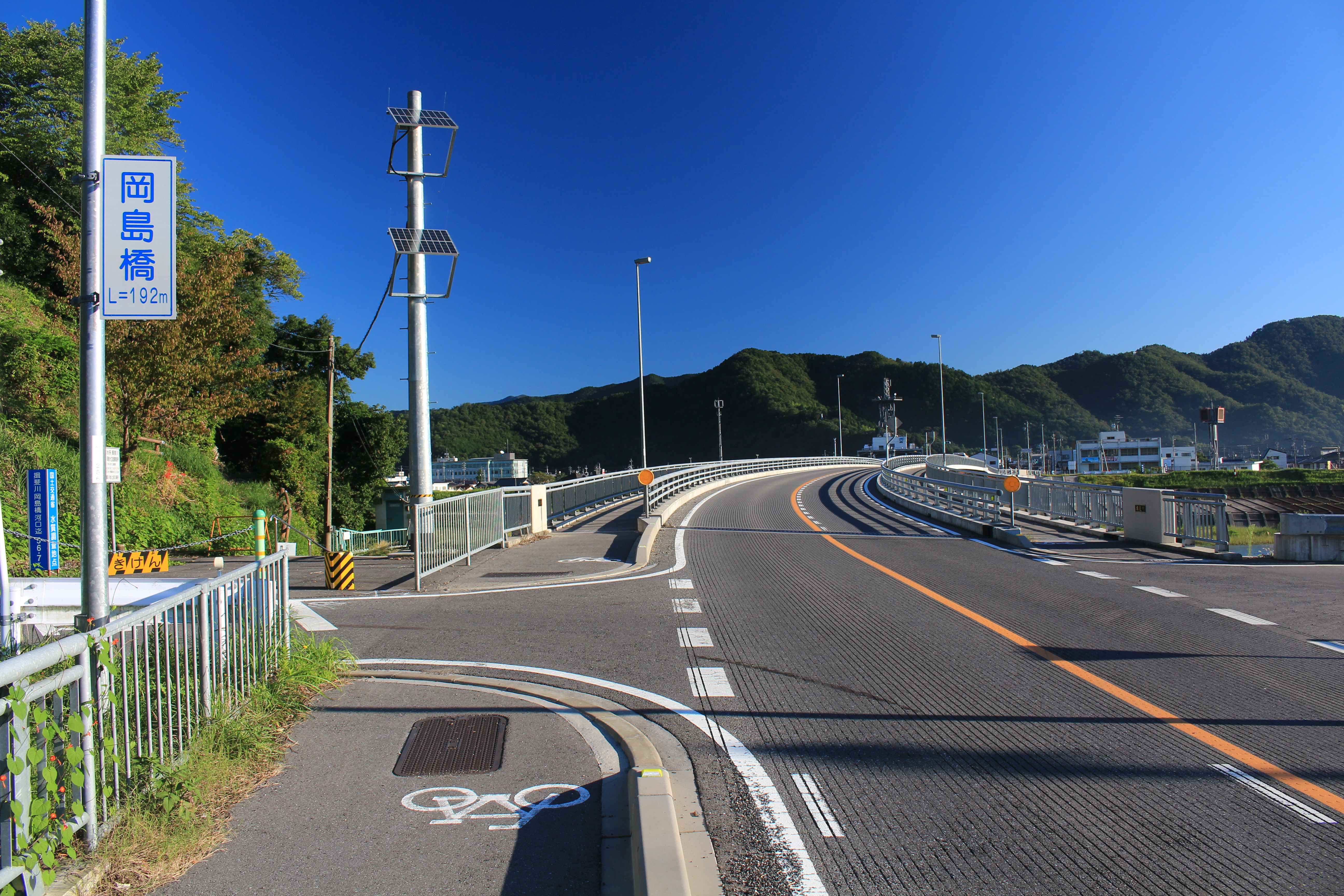 Okajima Bridge (Okajima-bashi) over Ibi River, in Ibigawa town, Gifu prefecture, Japan.